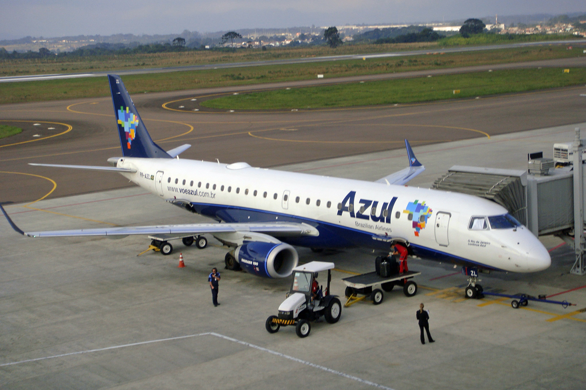 Embraer 190 from Azul Brazilian Airlines at Curitiba Airport (CWB), Brazil